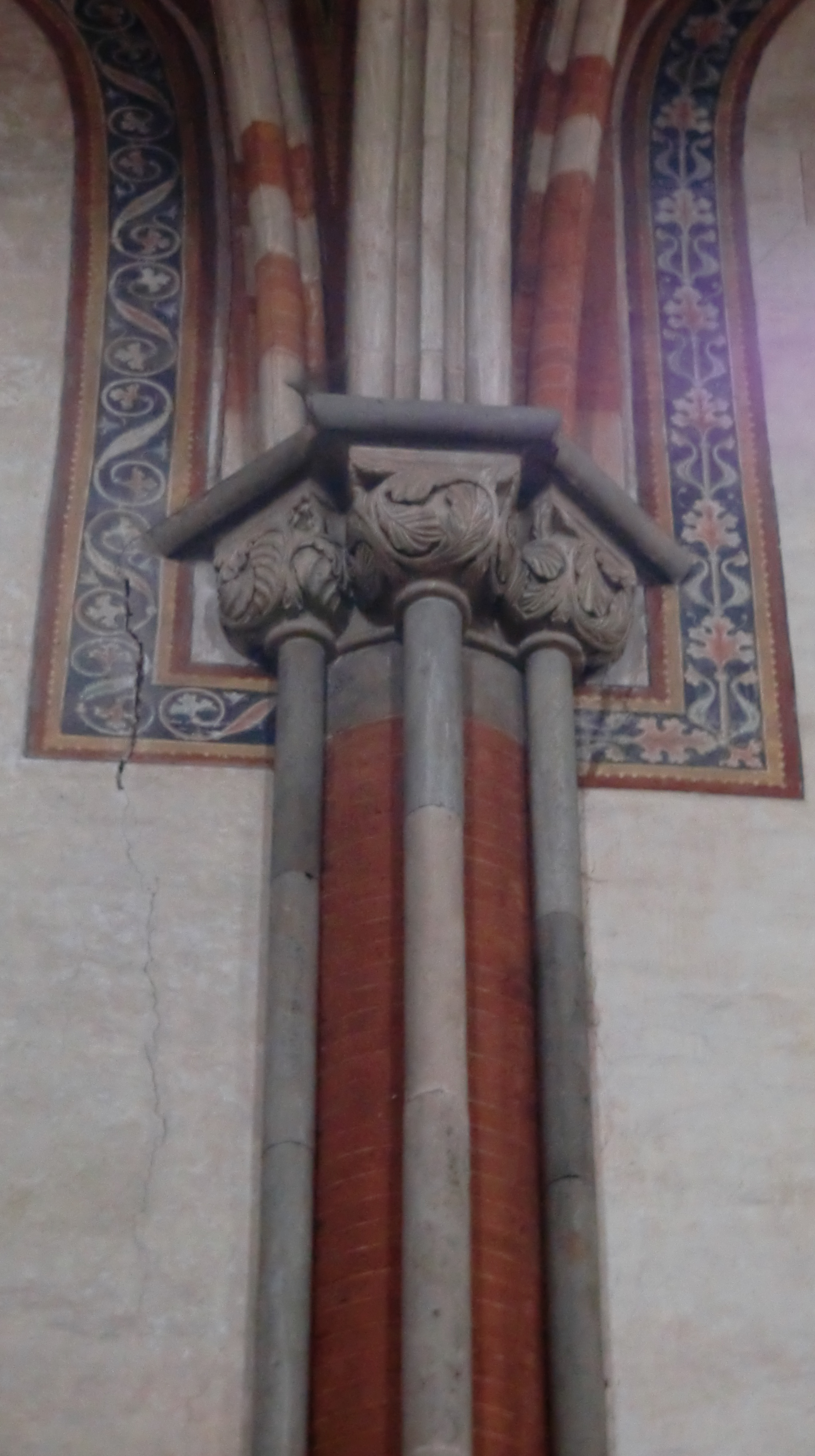 Vercelli, Basilica di Sant'Andrea, composite piers with capitals that support the vaults (XIII century)